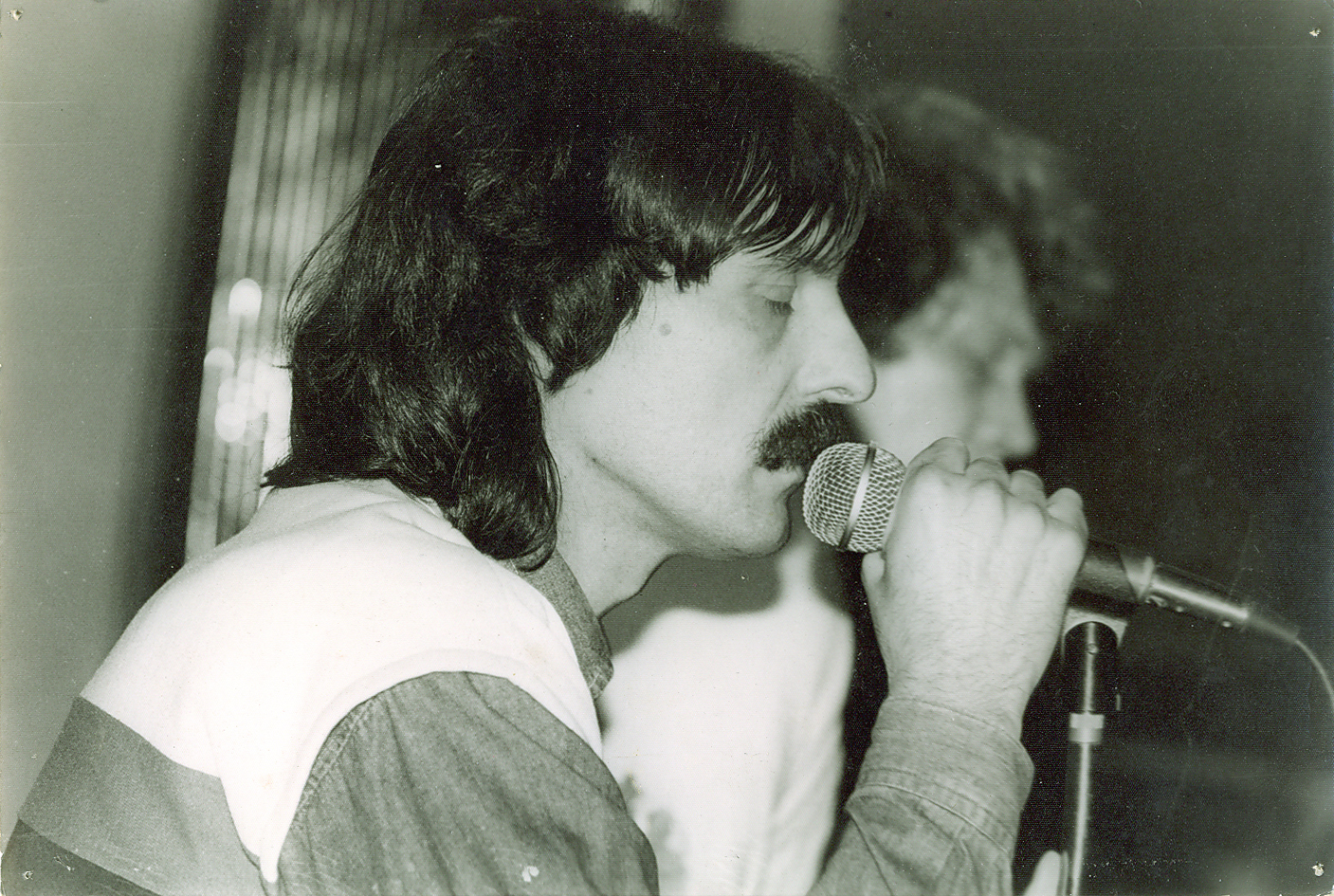 Bruno Langer, founder, composer, songwriter, singer and bass-guitarist in rock band "Atomic shelter" from Pula (Croatia)